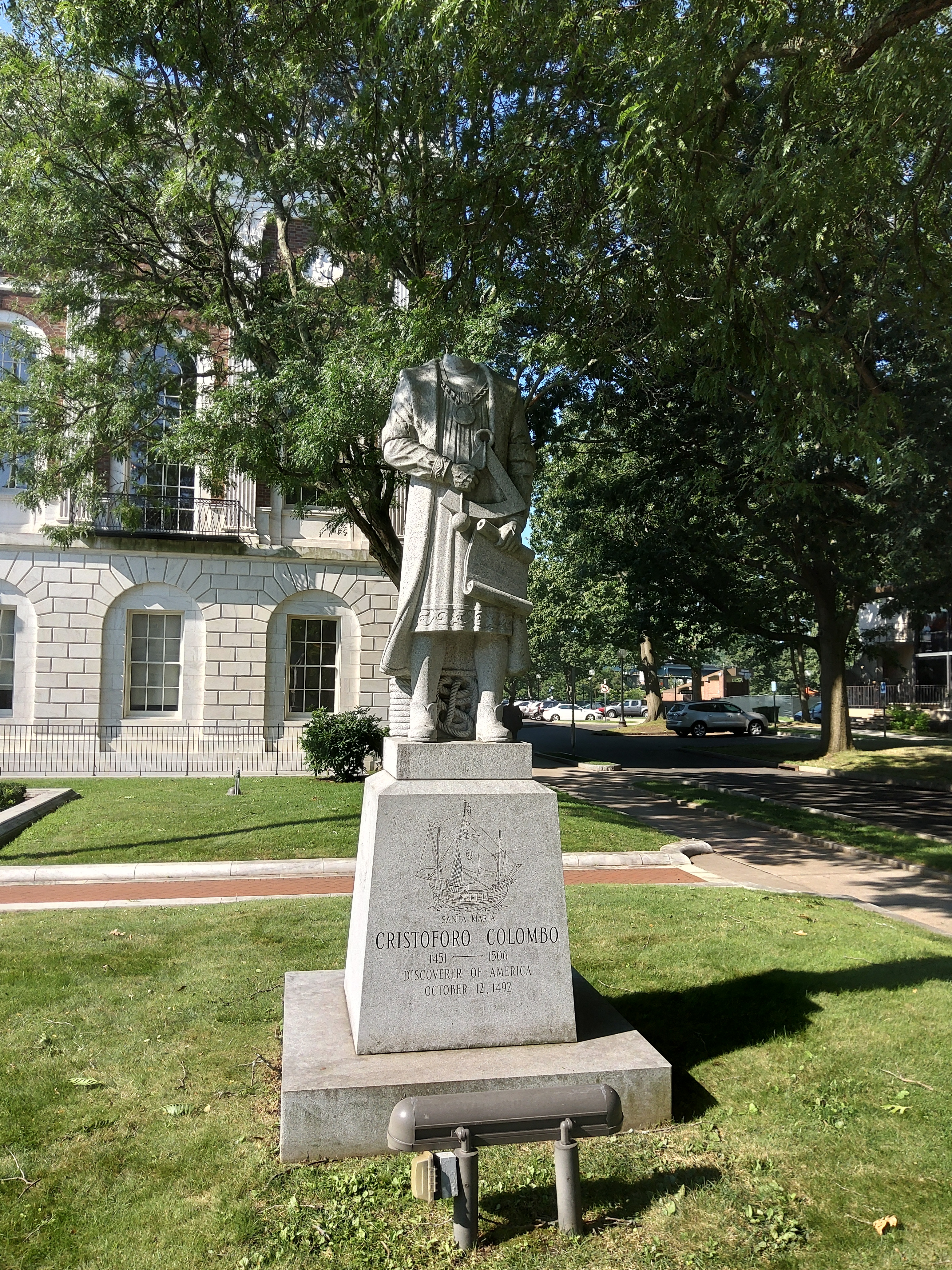 The stone statue of Christopher Columbus erected in 1984 in front of City Hall in Waterbury, CT. The statue's head was removed on Independence Day 2020.